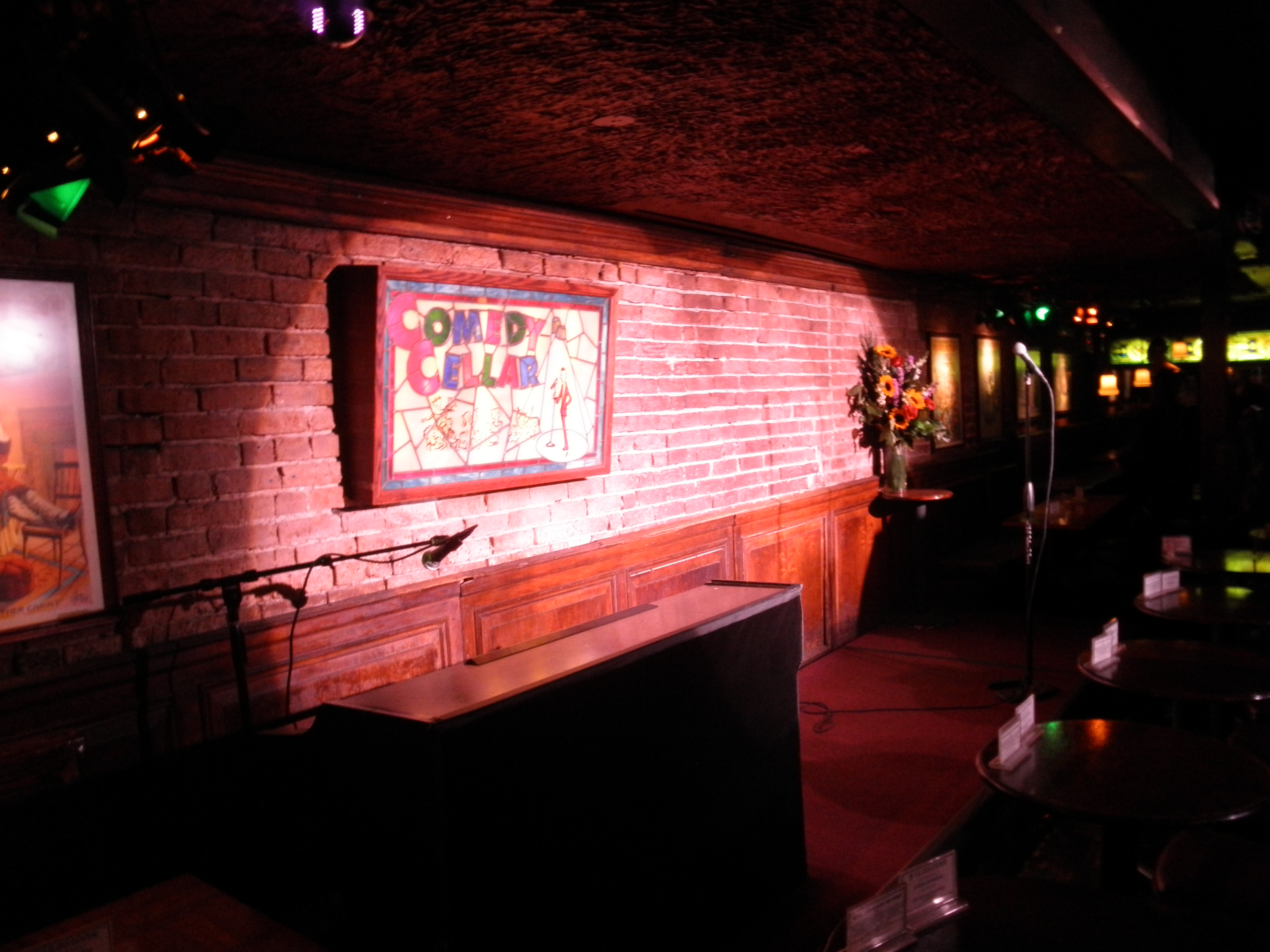 Comedy Cellar stage, 117 MacDougal Street, New York NY. The iconic Comedy Cellar sign was fabricated by Victor Rothman for Stained Glass, Yonkers, N.Y.